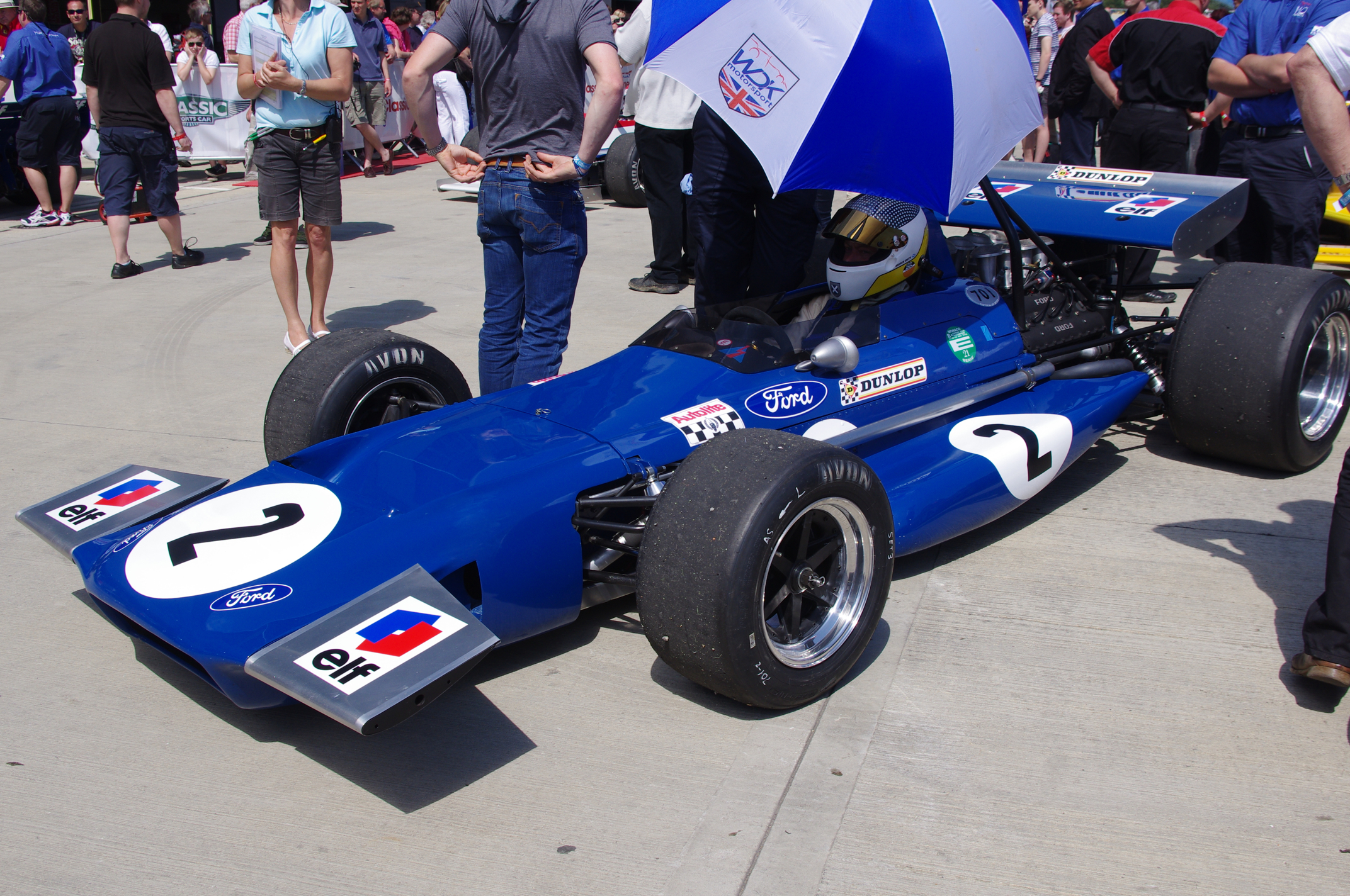 Silverstone Classic, 2012